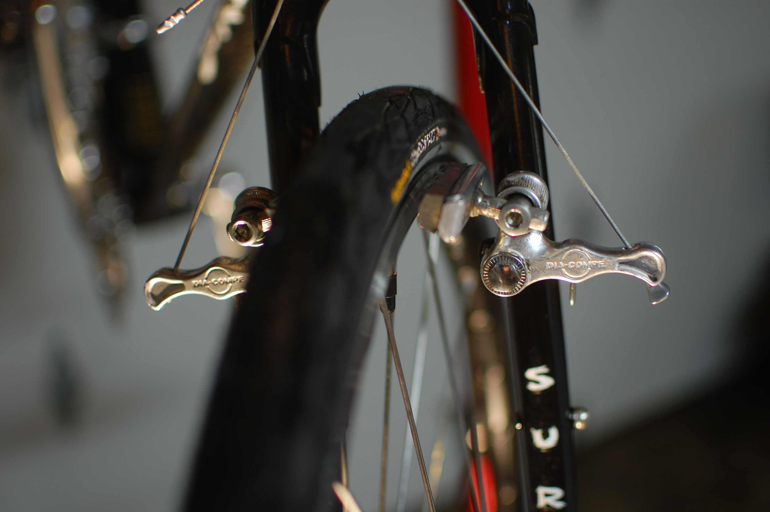 Dia Compe 980 high profile cantilevers on Surly LHT